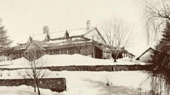 Wildflower Hall near Kufri circa 1896